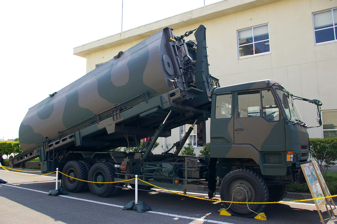 Taken by los688,18-May-2008,JGSDF Camp Kasumigaura.PD-self.JGSDF Type92 floating bridge. ja:2008年5月18日、投稿者撮影。陸上自衛隊霞ヶ浦駐屯地、92式浮橋（投下体制）。